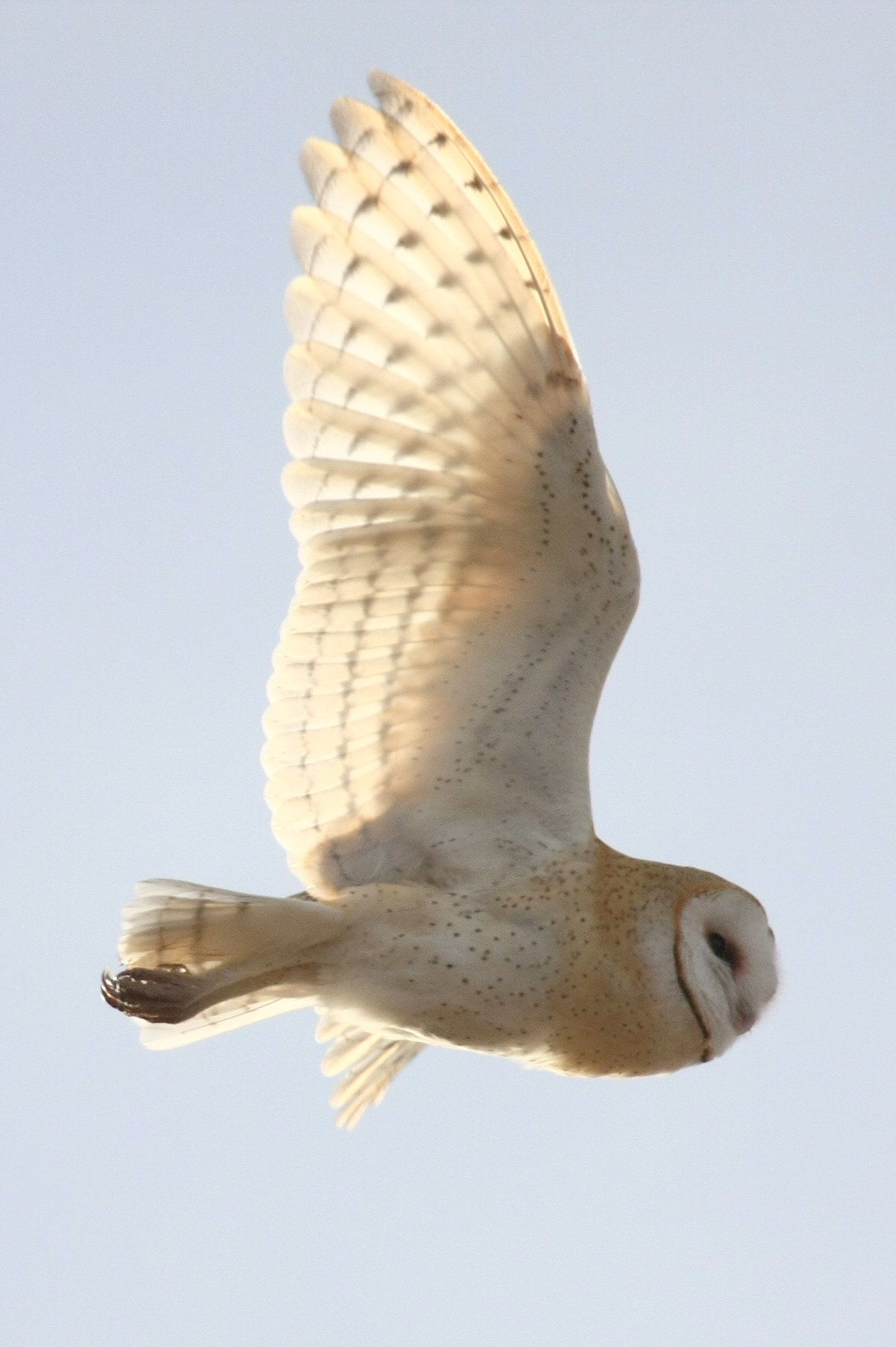 Barn Owl Tyto furcata pratincola, Pyramid Lake, Washoe County, Nevada, USA.